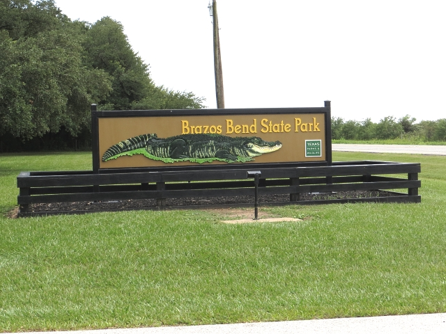 This is a photo of the new entrance sign to Brazos Bend State Park in Needville, Texas. Intended originally for use on